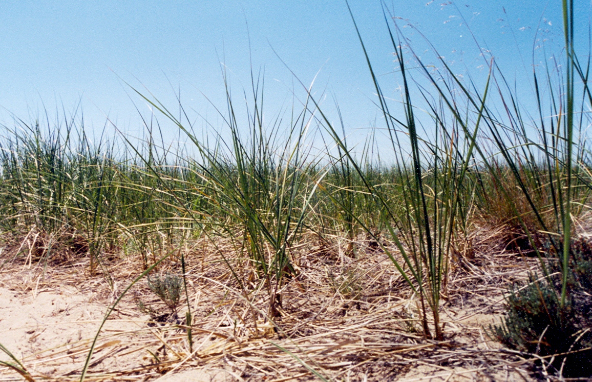 Ammophila breviligulata (American beachgrass), beach dunes at Pancake Bay Provincial Park, Ontario, Canada